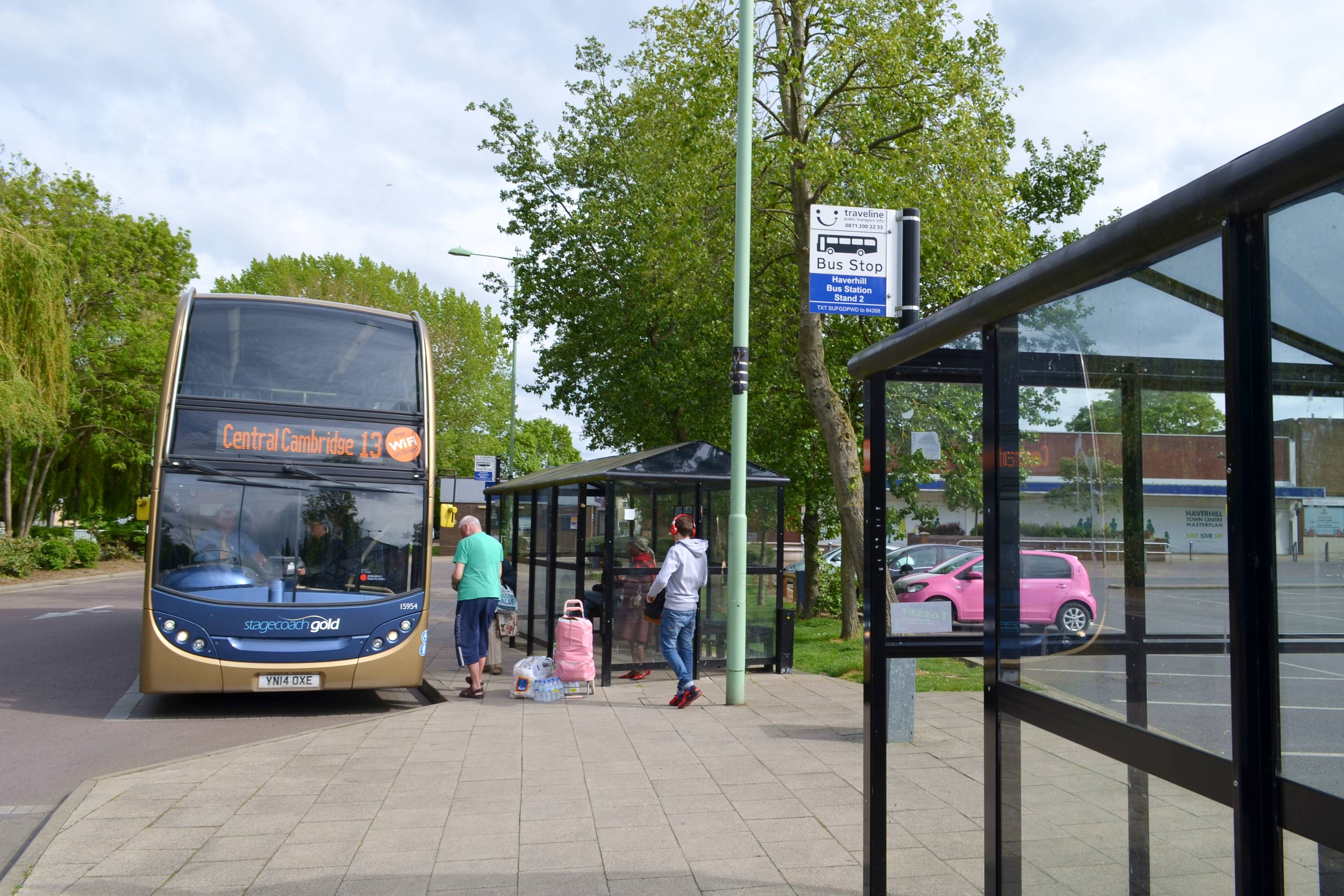 Stagecoach Gold bus 13 at the bus station in Haverhill, England in May 2015.